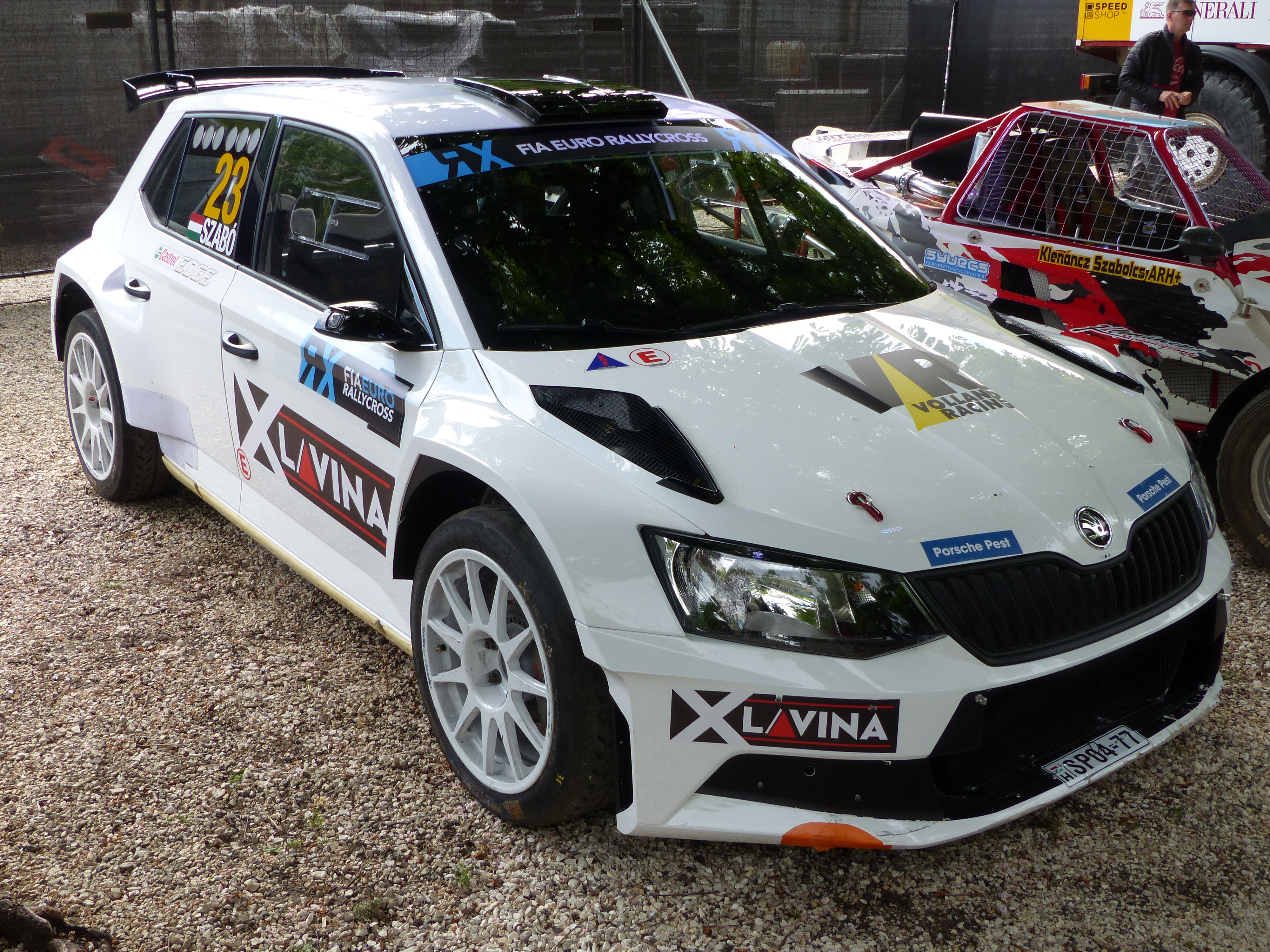 Nagy Futam. Budapest, Hungary, Central Europe. Taken on the 30th of April, 2017. Before the day of Nagy Futam (1st of May, 2017) racing cars on display at the Városház park, Budapest.